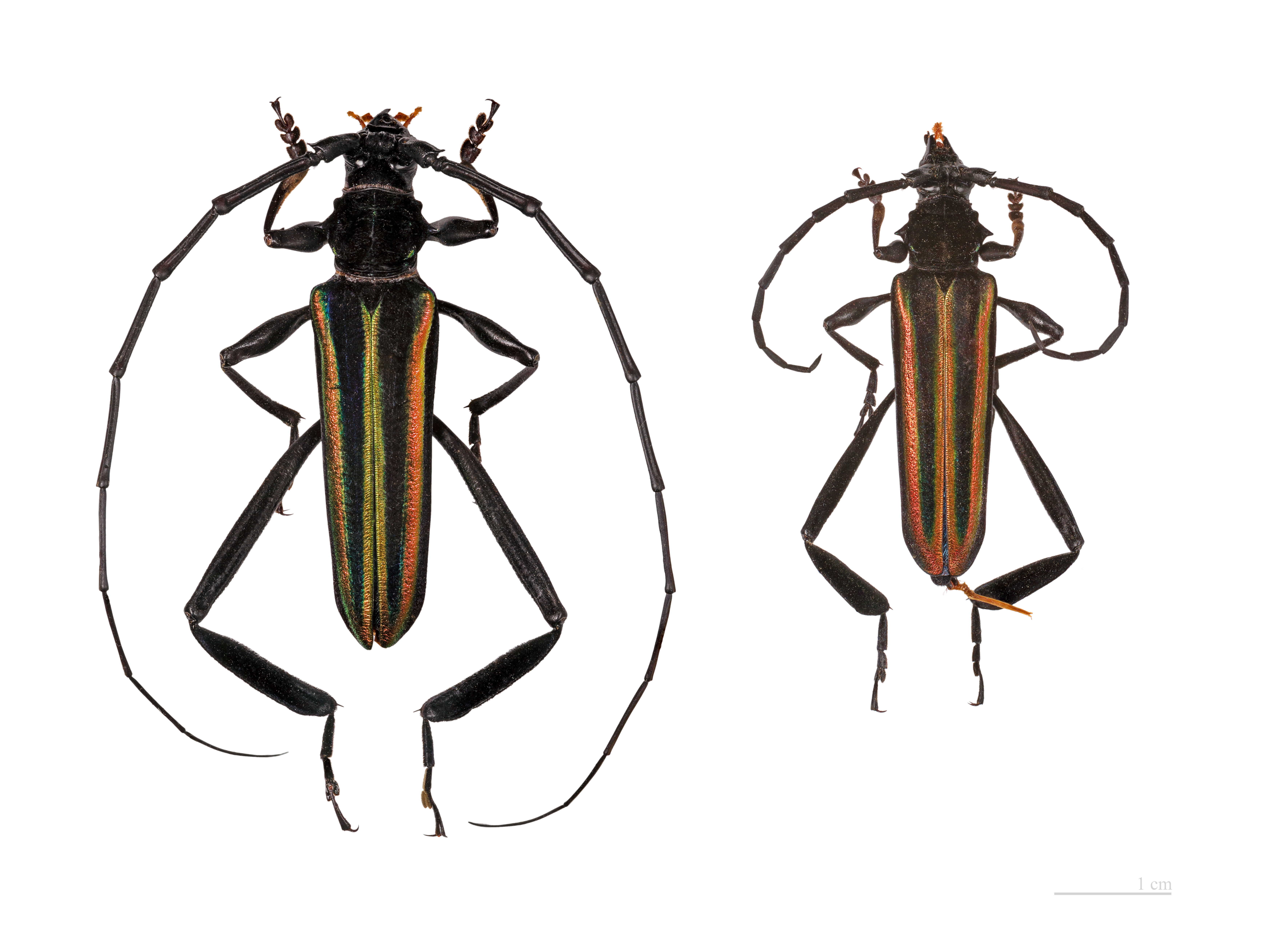 ♂ ♀ - Dorsal side Locality : Kaw road, Carbet of National Forests Office, French Guiana.